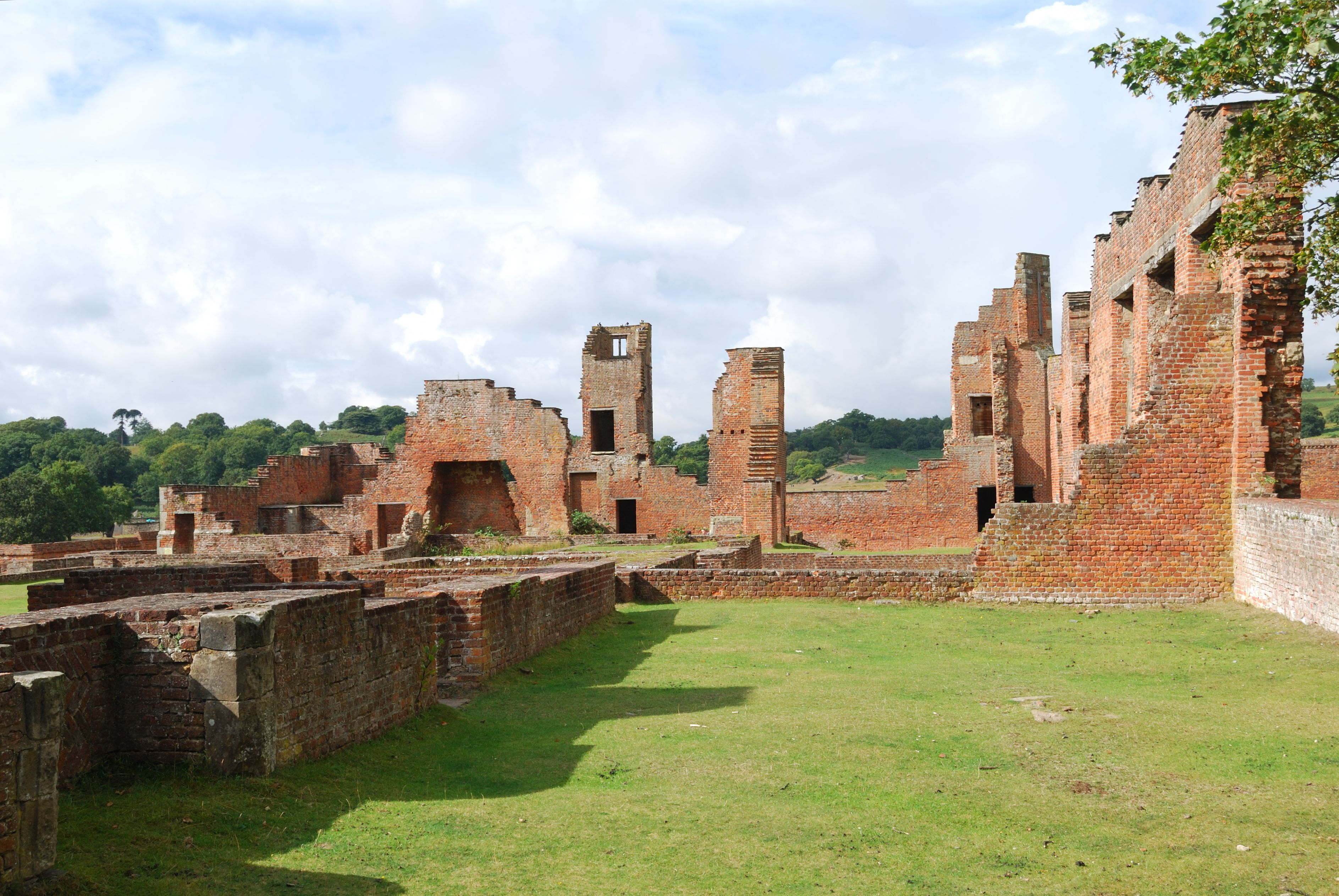 Ruins of Bradgate House in Bradgate Park